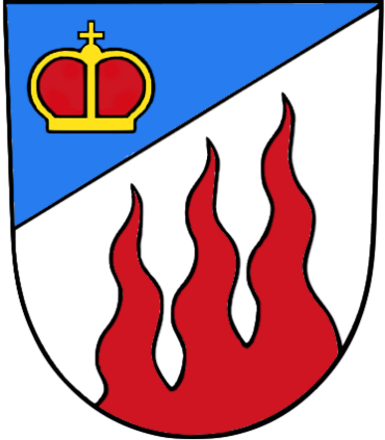 Municipal coat of arms of town Ohňišťany, Hradec Králové District, Czech Republic